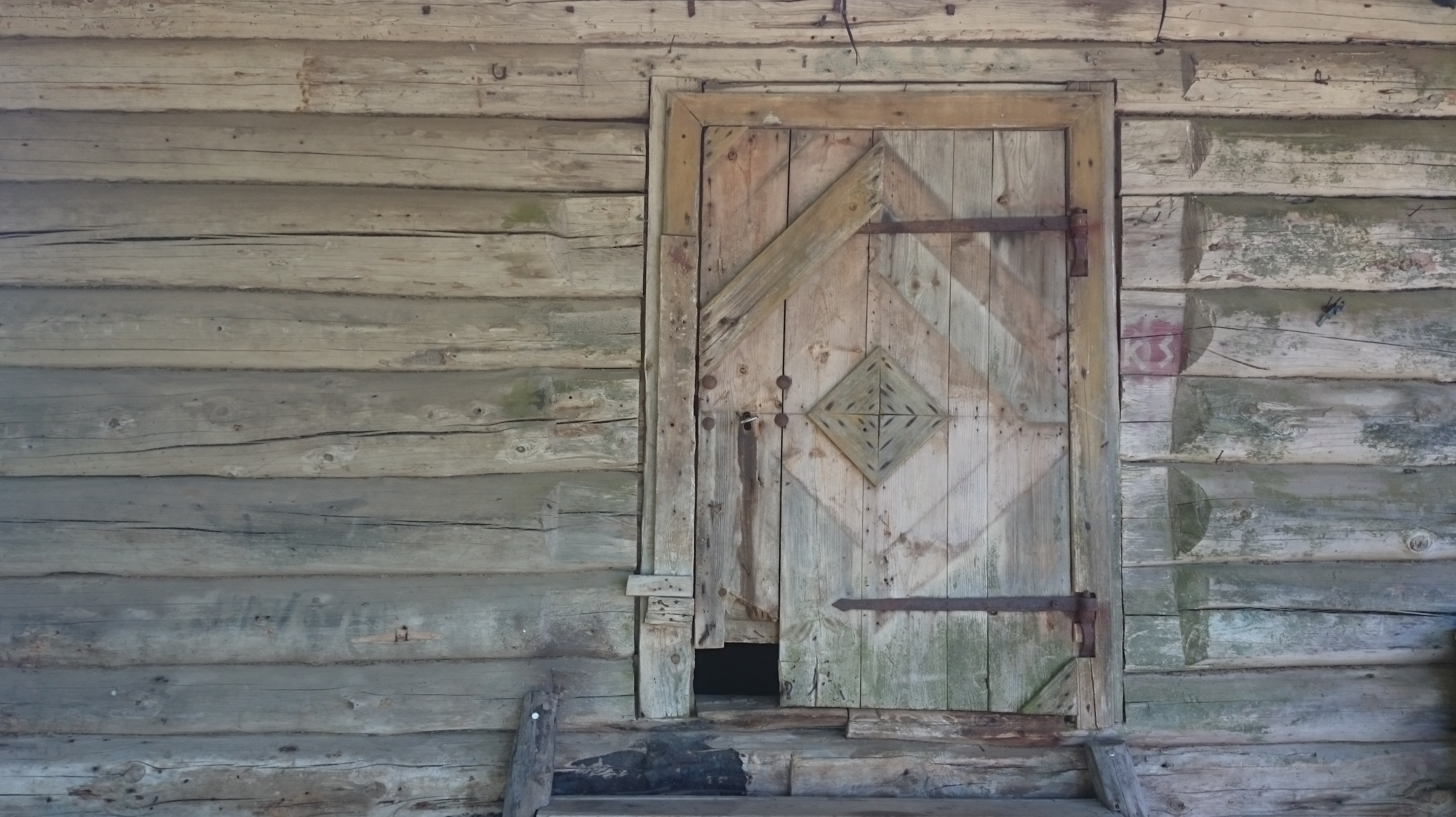 cat door in garner, Põlvamaa, Estonia